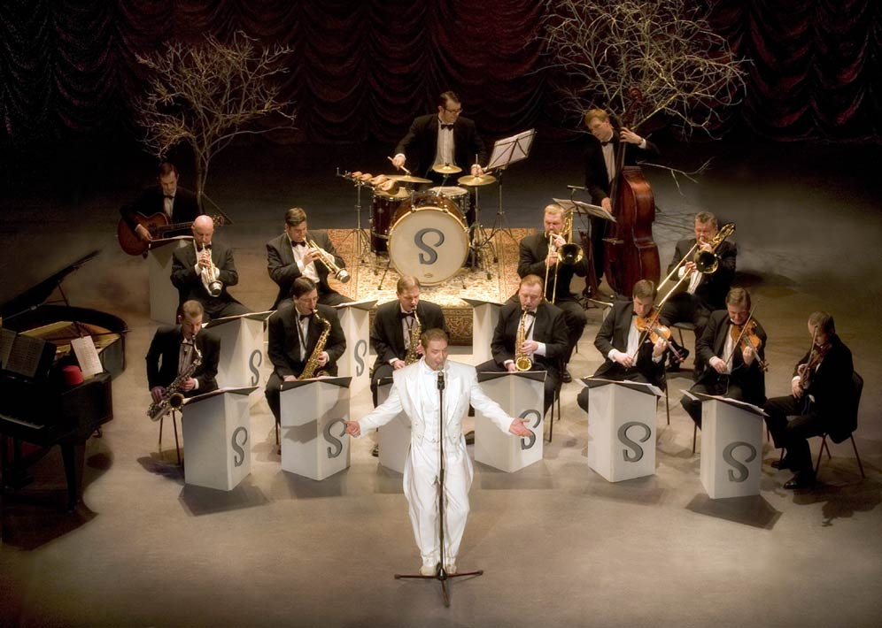 Swing Swindlers by Kaupo Kikas, Copyright owner: Mart Sander, User:Zanderz has stated: "my name is Mart Sander, and I do hold copyright to each of the pictures that I have uploaded. These were made by the photographers who work for me, they have been paid for their work and resultingly I own the copyright. Uploading the pictures I do release them into public domain. If there are any problems, my e-mail is . See Wikipedia:Images and media for deletion/2007 November 30#Image:Zanderz-by-Jarek-glamour.jpg